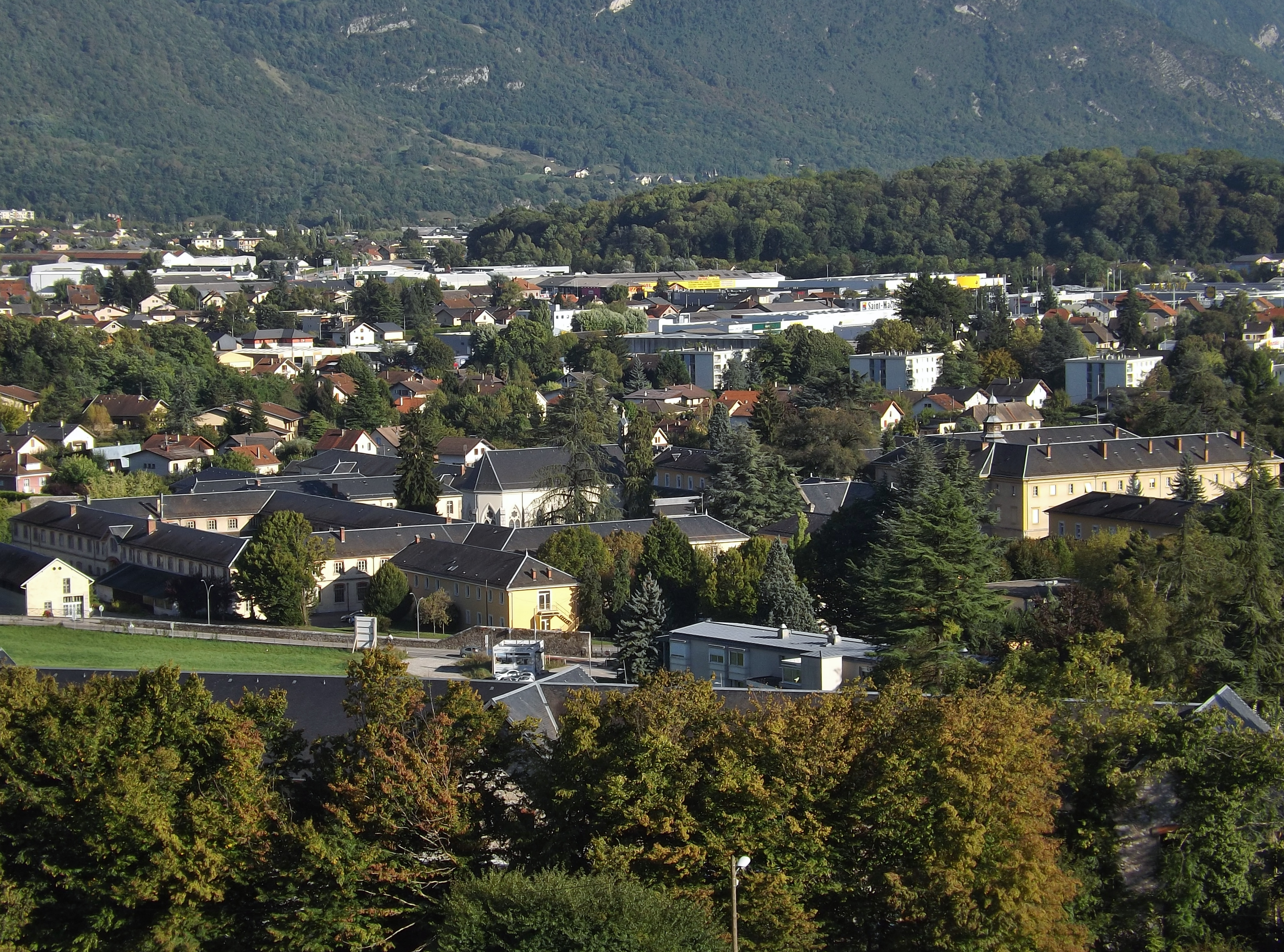 General sight of the centre hospitalier spécialisé (CHS) (specialized psychatric hospital) historical building, in Bassens near Chambéry in Savoie, France.